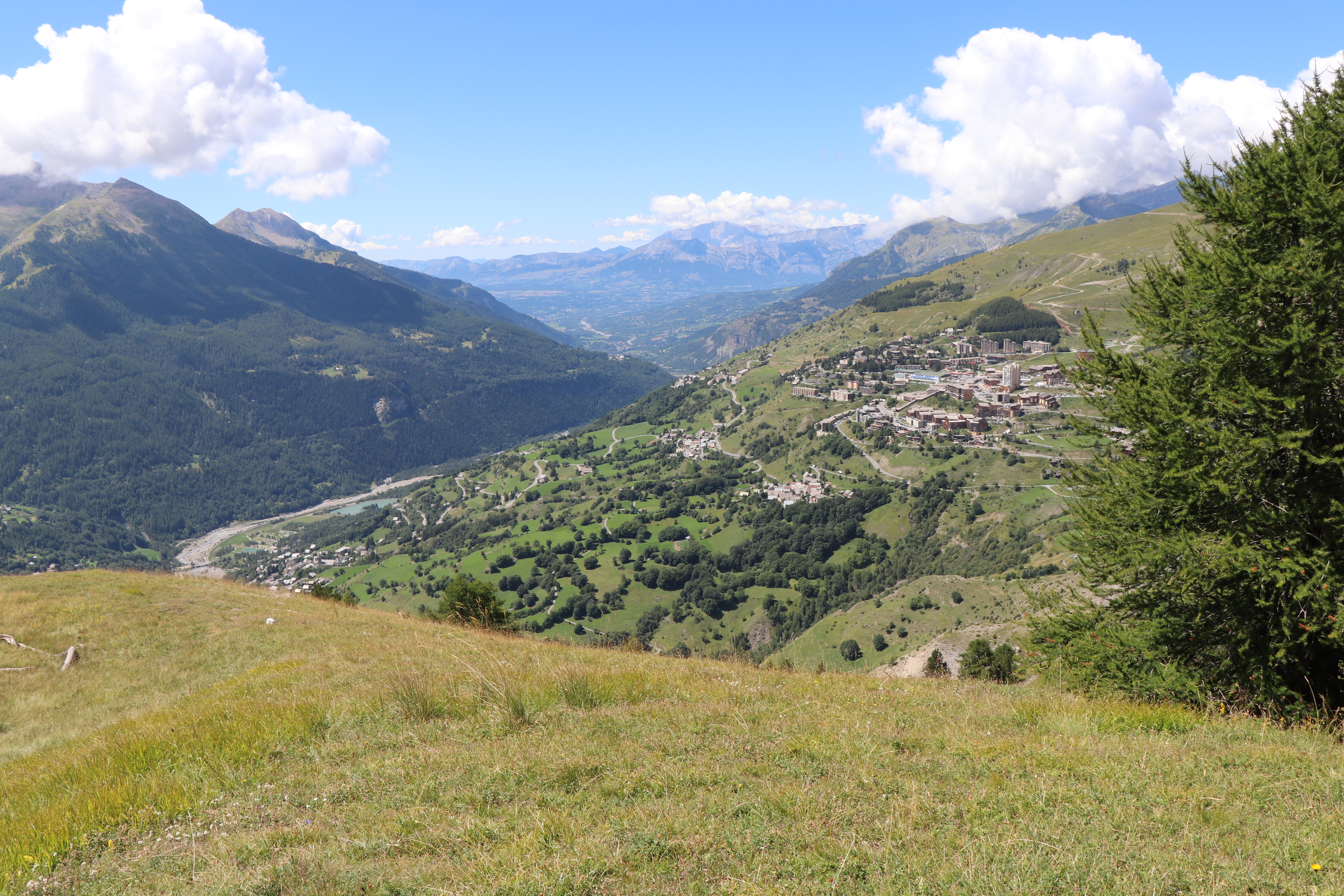 View of Orcières village and Orcières Merlette ski station in France High Alps